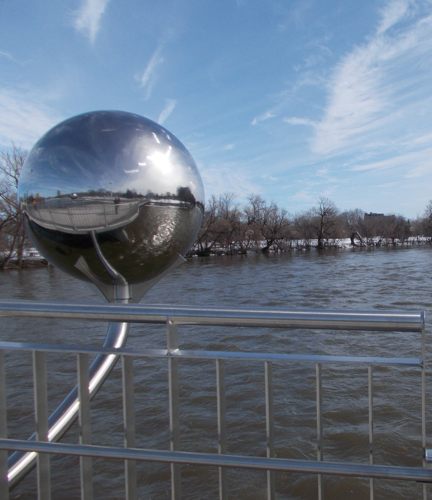 Adàwe Crossing, Ottawa, art work installation entitled "A View from Two Sides" - photo captures only one of the two spheres of this art work